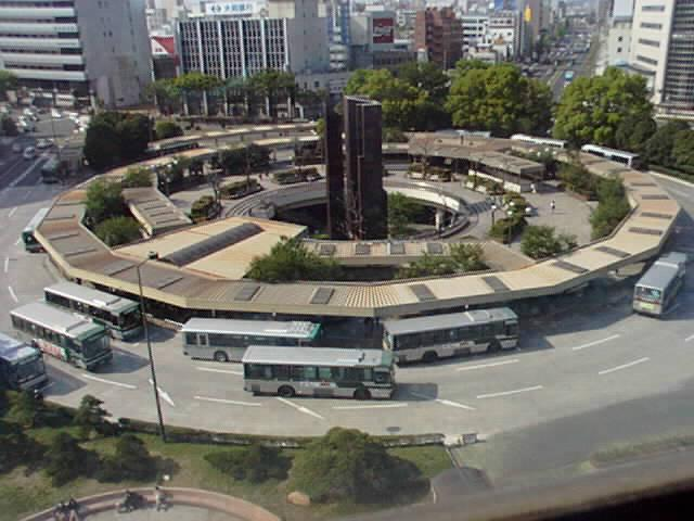 Hamamatsu Station Bus Terminal